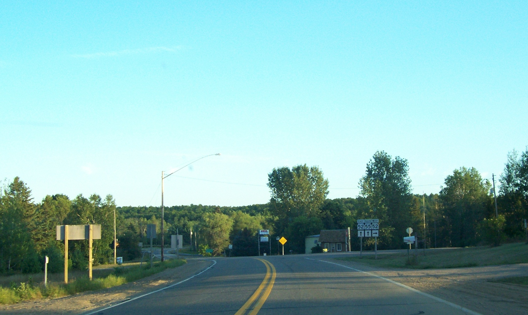 Looking south at the intersection of Wisconsin Highway 55 and Wisconsin Highway 52 in Lily, Wisconsin.